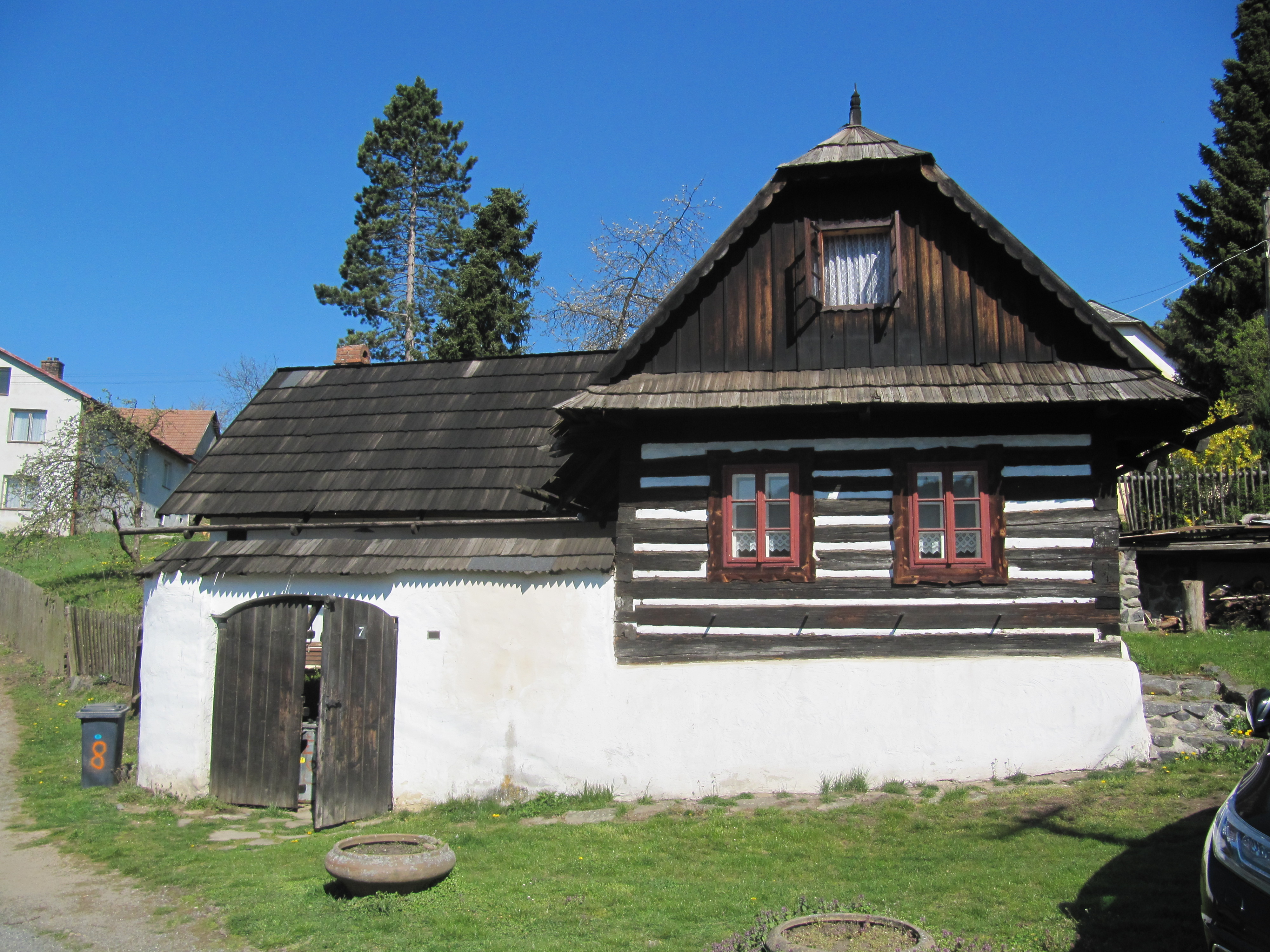 Věstín, Žďár nad Sázavou District, Czechia.